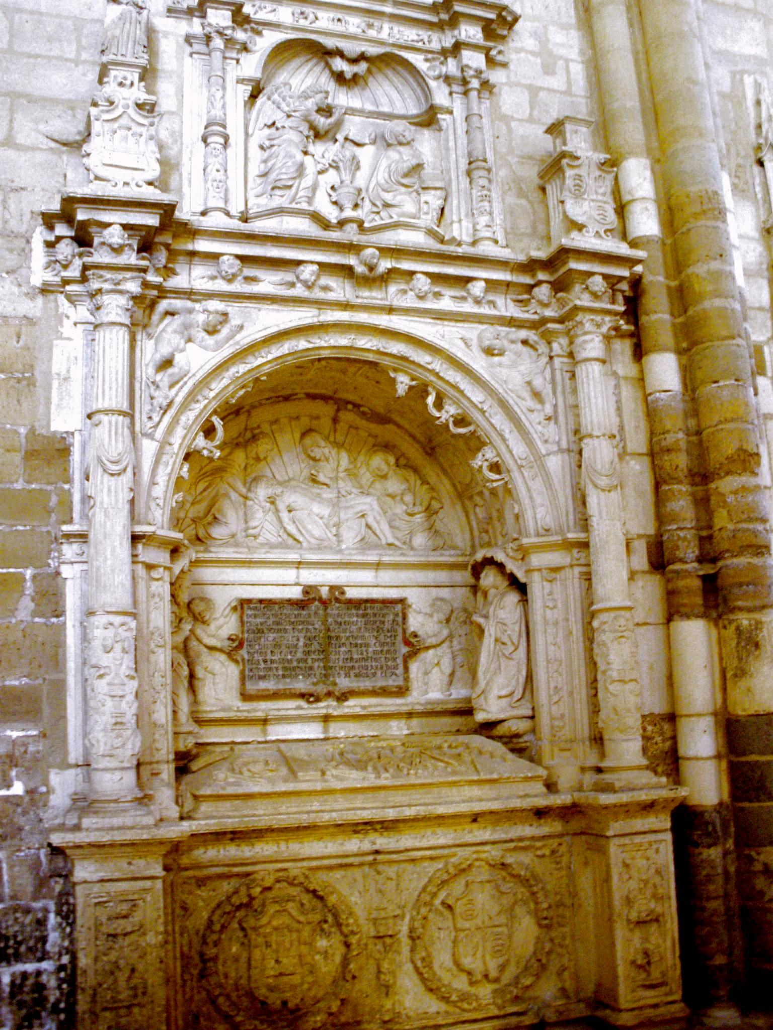 Sepulcro monumental renacentista de los mercaderes de Juan García de Castro y su esposa Mari Díez de Carrión, en la iglesia de San Esteban (Museo del Retablo) de Burgos, España